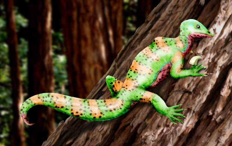 Drepanosaurus unguicaudatus, an avicephala from the Late Triassic of Italy. Head is hypothetical based on Megalancosaurus. Digital.